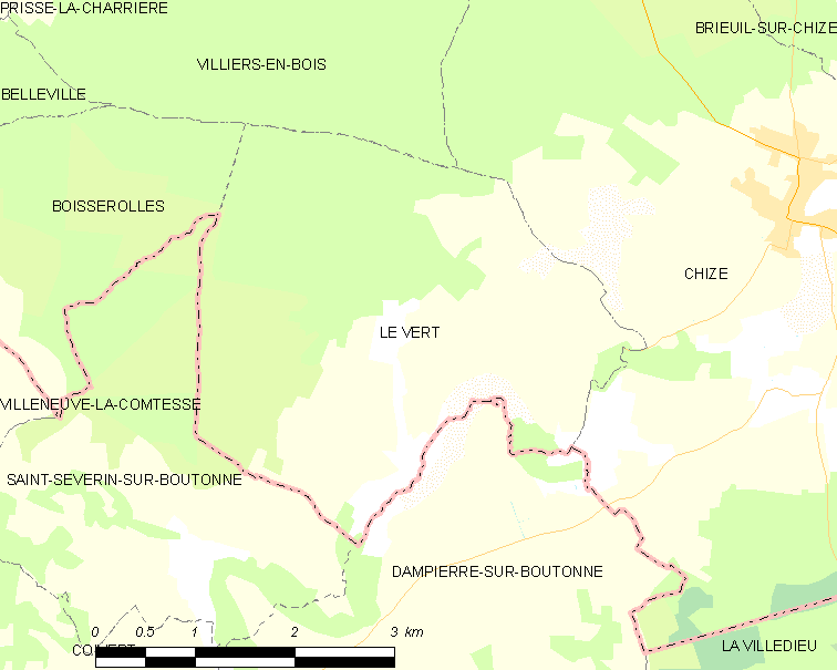 Map of French municipality Le Vert